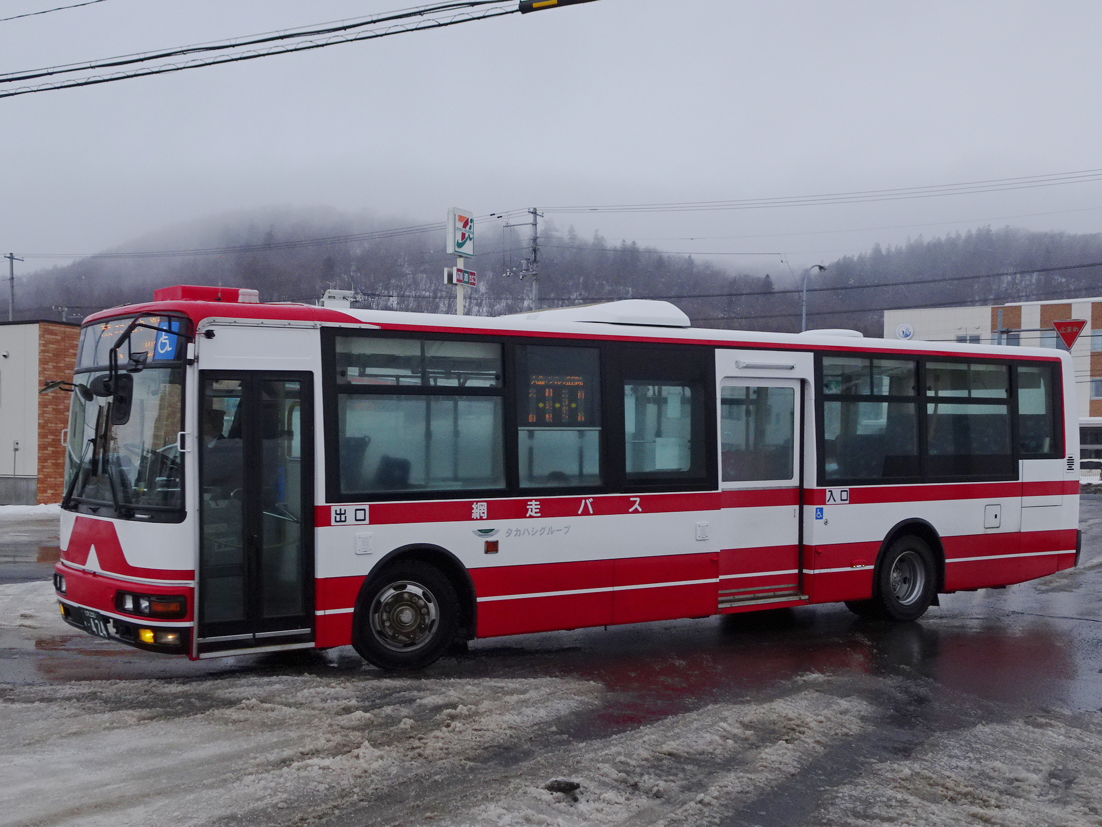 Abashiri city line